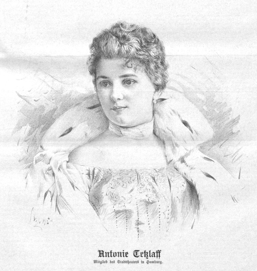 Portrait of Toni (Antonie) Tetzlaff (1871-1947), German actress.